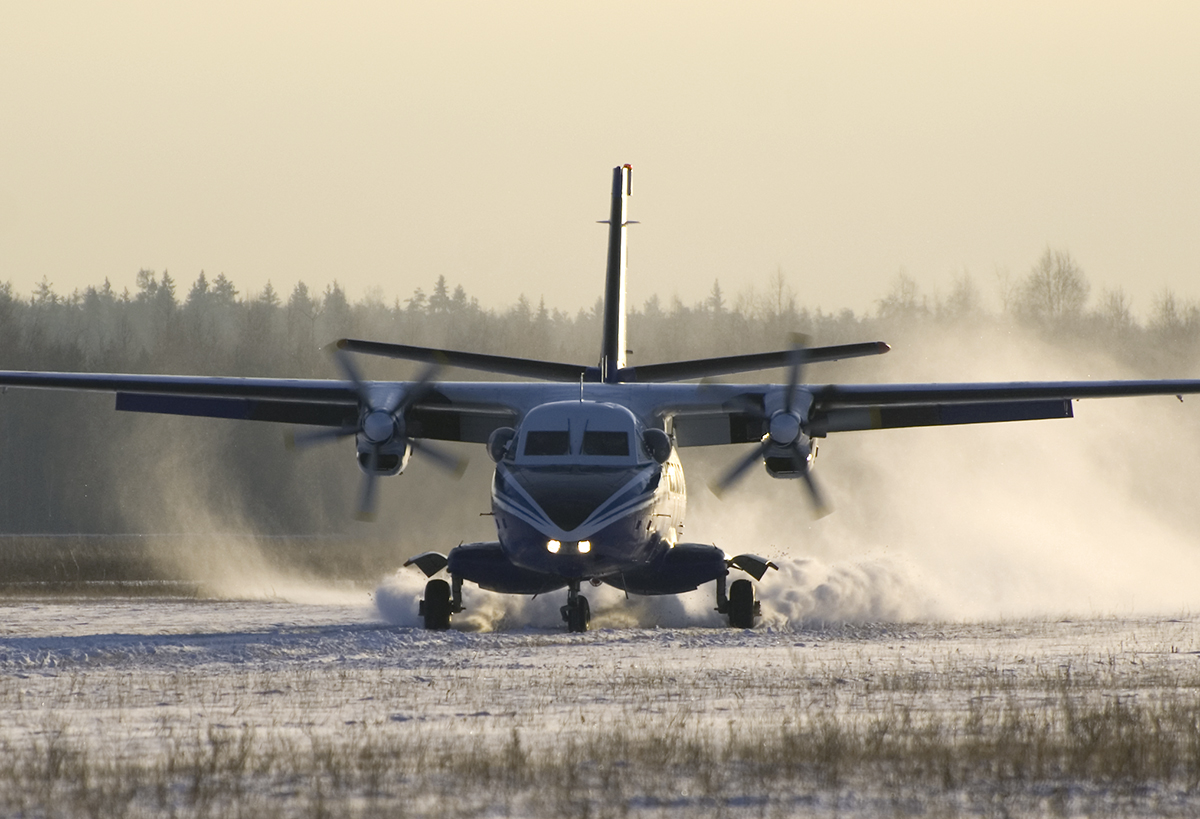 Let L-410 landing at Kirzhach Aerodrome